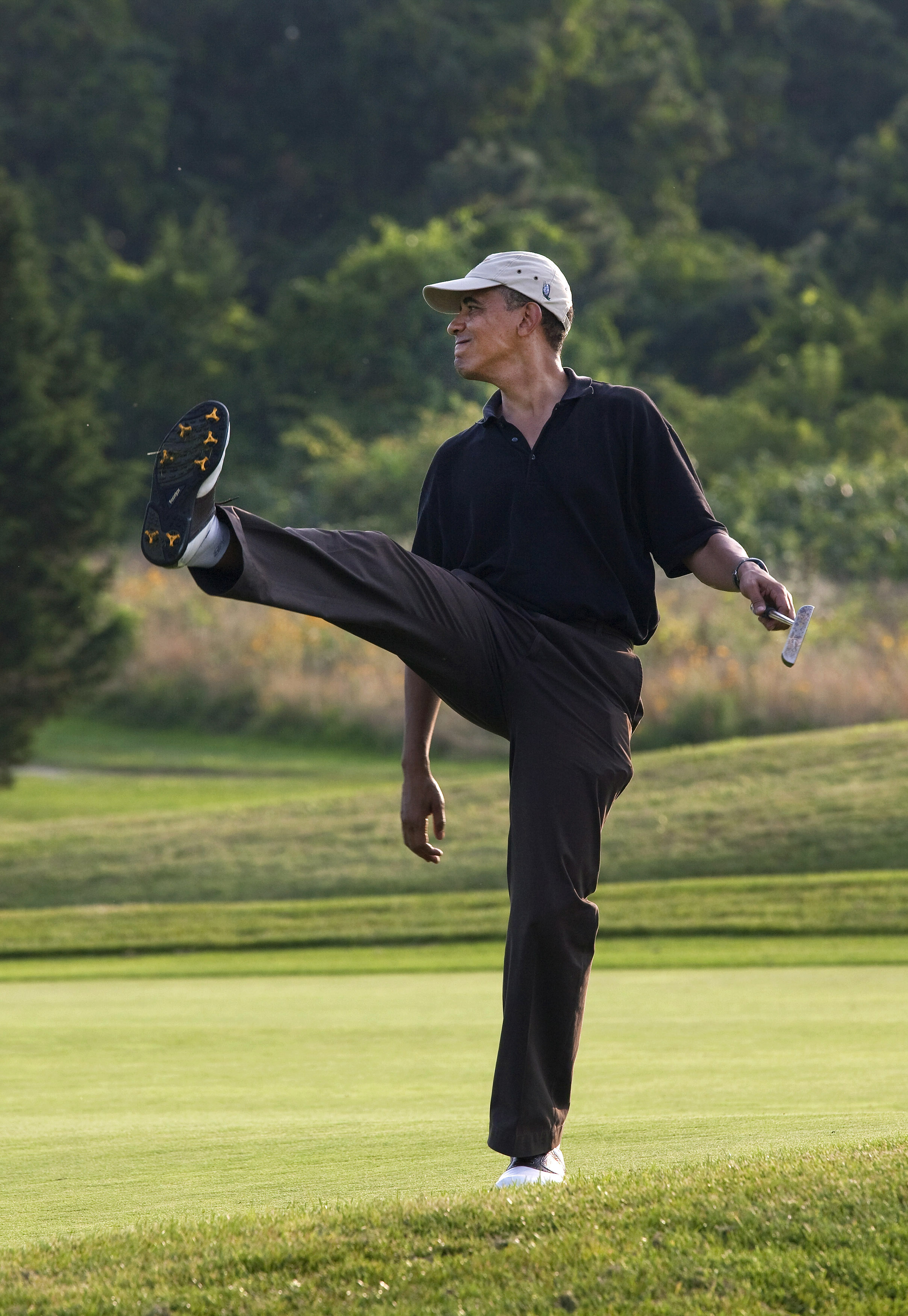 President Barack Obama puts a little body English on his shot during a round of golf at Farm Neck golf course during his vacation on Martha's Vineyard, Aug. 24, 2009